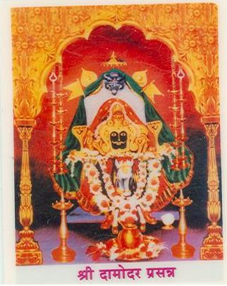 Lord Krishna as Damodar. Zambaulim,Goa,India